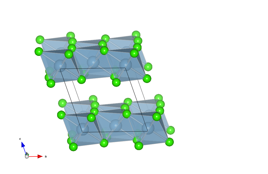 AlCl3 crystal structure, layers view drawn using VESTA K. Momma and F. Izumi, "VESTA: a three-dimensional visualization system for electronic and structural analysis." J. Appl. Crystallogr., 41:653-658, 2008.